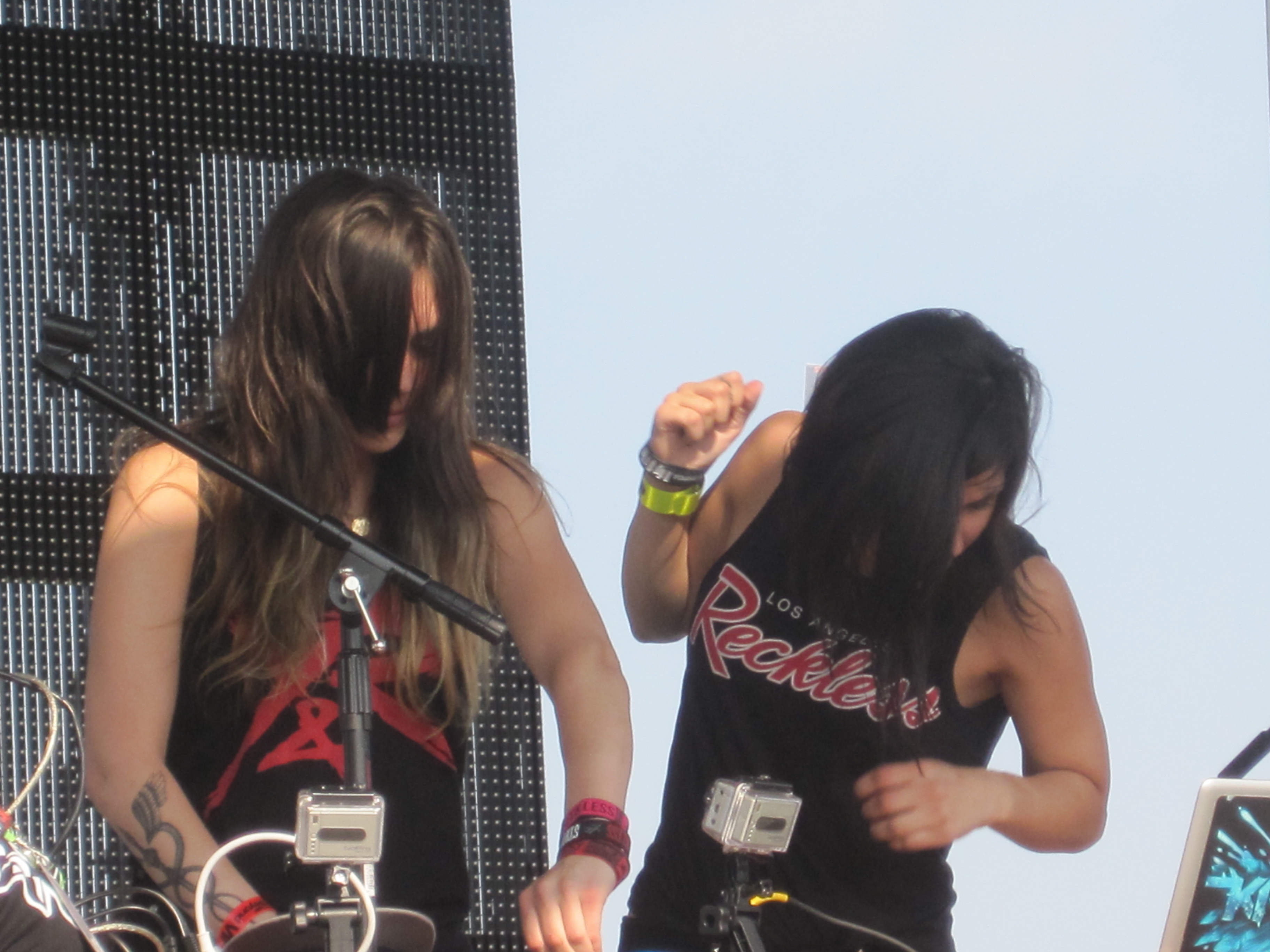 Krewella (from left to right: Jahan Yousaf and Yasmine Yousaf; not shown: Kris "Rain Man" Trindl) performing at the Indianapolis Motor Speedway in Speedway, Indiana on Sunday, May 27th, 2012.